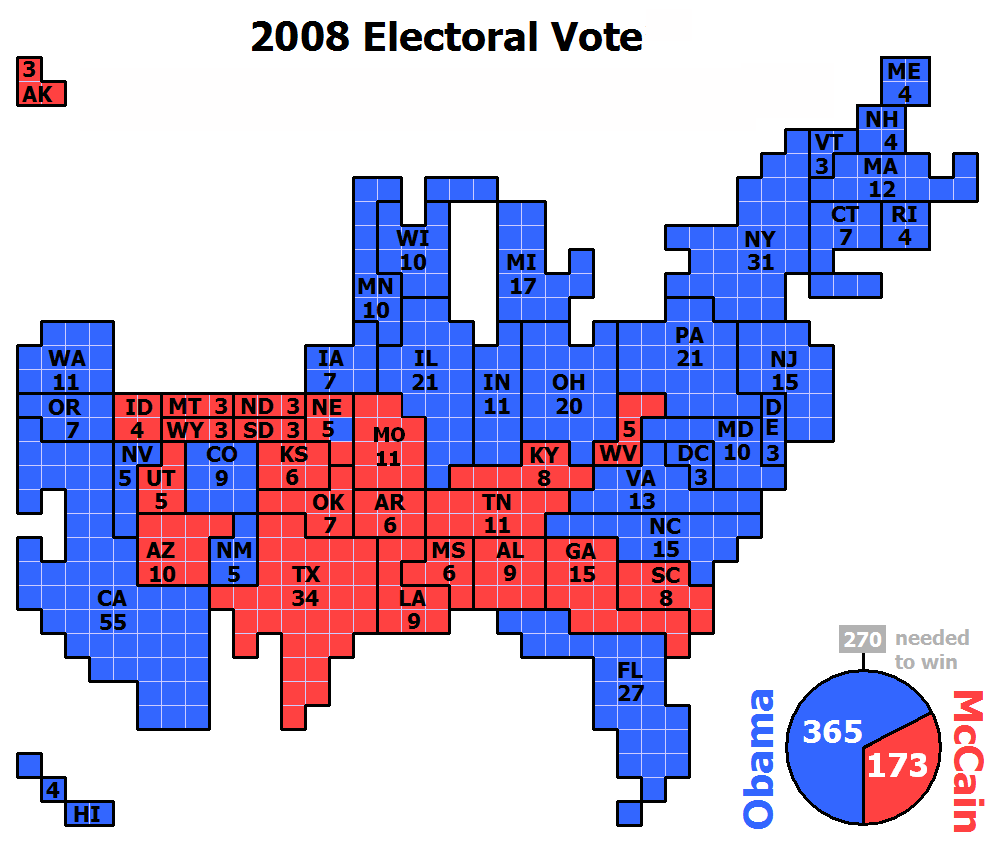 Cartogram of the 2008 Electoral Vote for US President, with each square representing one electoral vote. Nebraska, being one of two states that are not winner-take-all, for the first time had its votes split, with NE-2 voting for Obama and the rest of the state for McCain. The population density of the 50 states varies by three orders of magnitude (from NJ with nearly 1,200 people per square mile, to AK with roughly 1 1/4 people per sq mi). Because of that huge variation, a regular map of the US that is typically used to present electoral vote results can convey a very skewed impression of the outcome where sparsely populated states appear overrepresented and densely populated states appear underrepresented. The cartogram approach of this image eliminates that problem by presenting the area of each state in an exact one-to-one correspondence with its number of electoral votes. But this is achieved at the cost of introducing distortions to the actual shape of each state and their positioning in relation to each other.